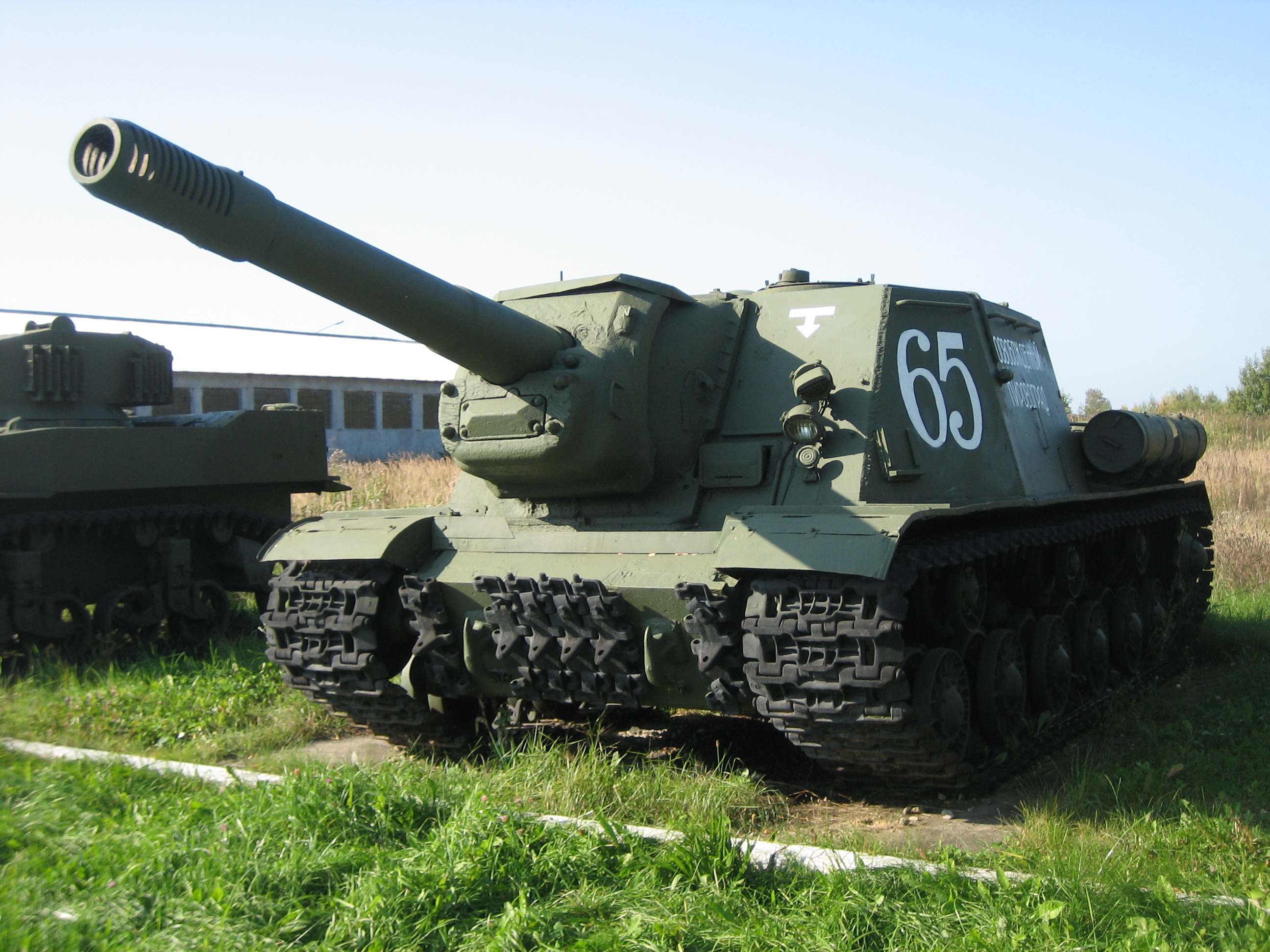 ISU-152 self-propelled gun, on display at the Kubinka Tank Museum, Russia